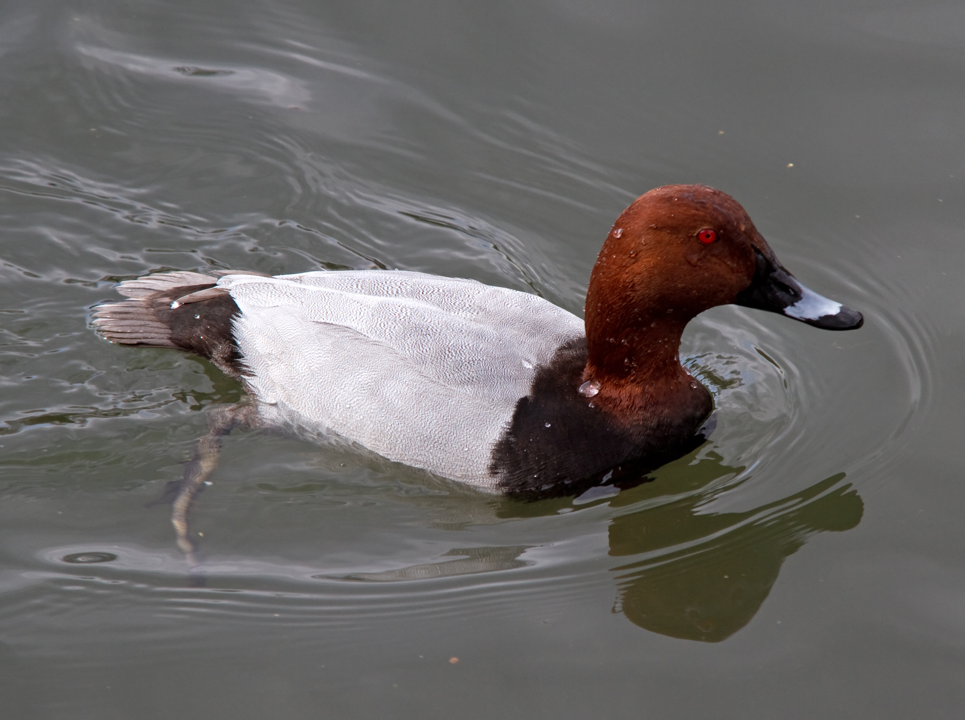 Pochard Aythya ferina, Battersea Park, London